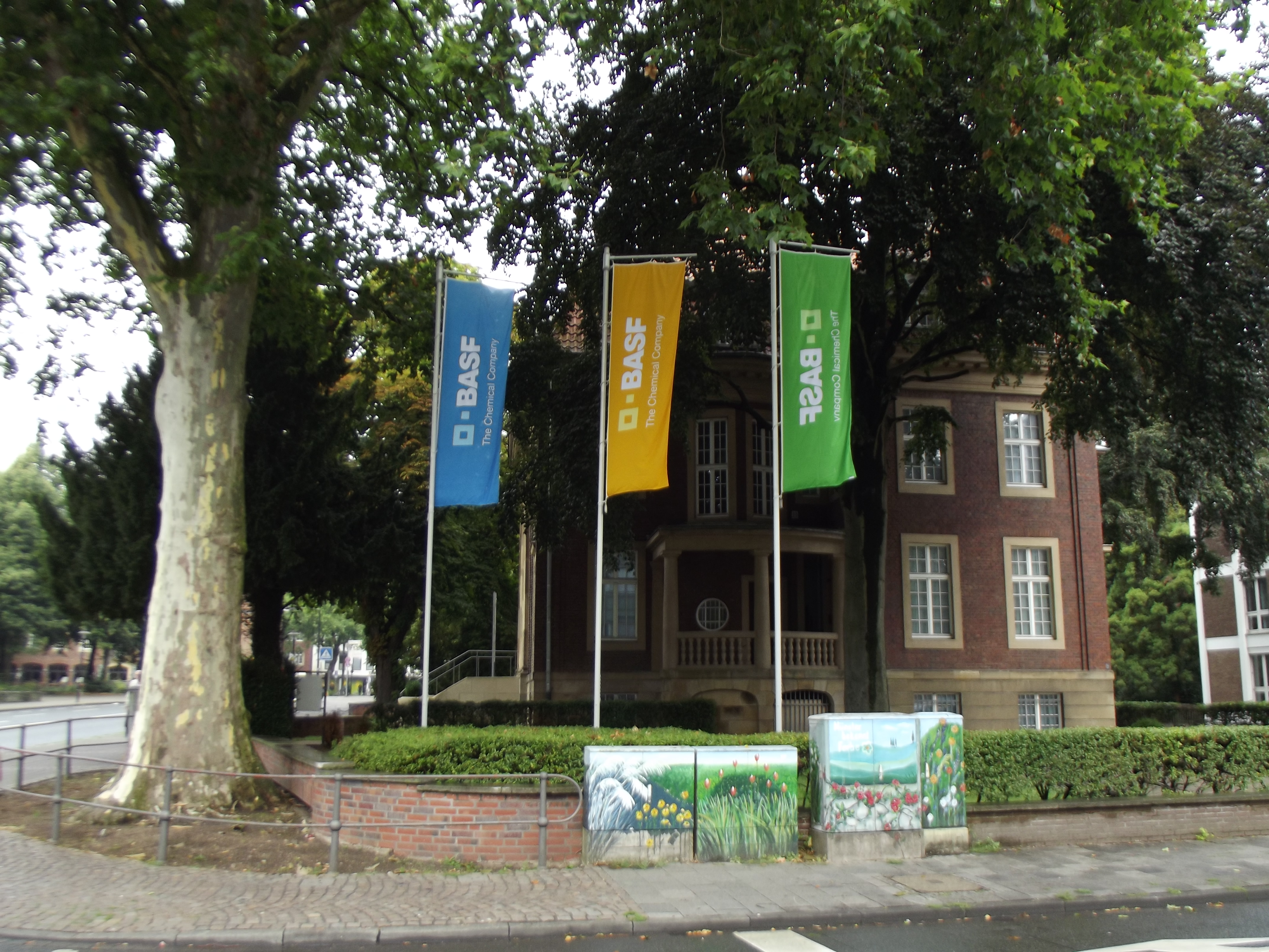 Picture of the "Museum für Lackkunst" ("Museum for Laquerware") in Münster, an example for sponsoring by BASF, as their flags show